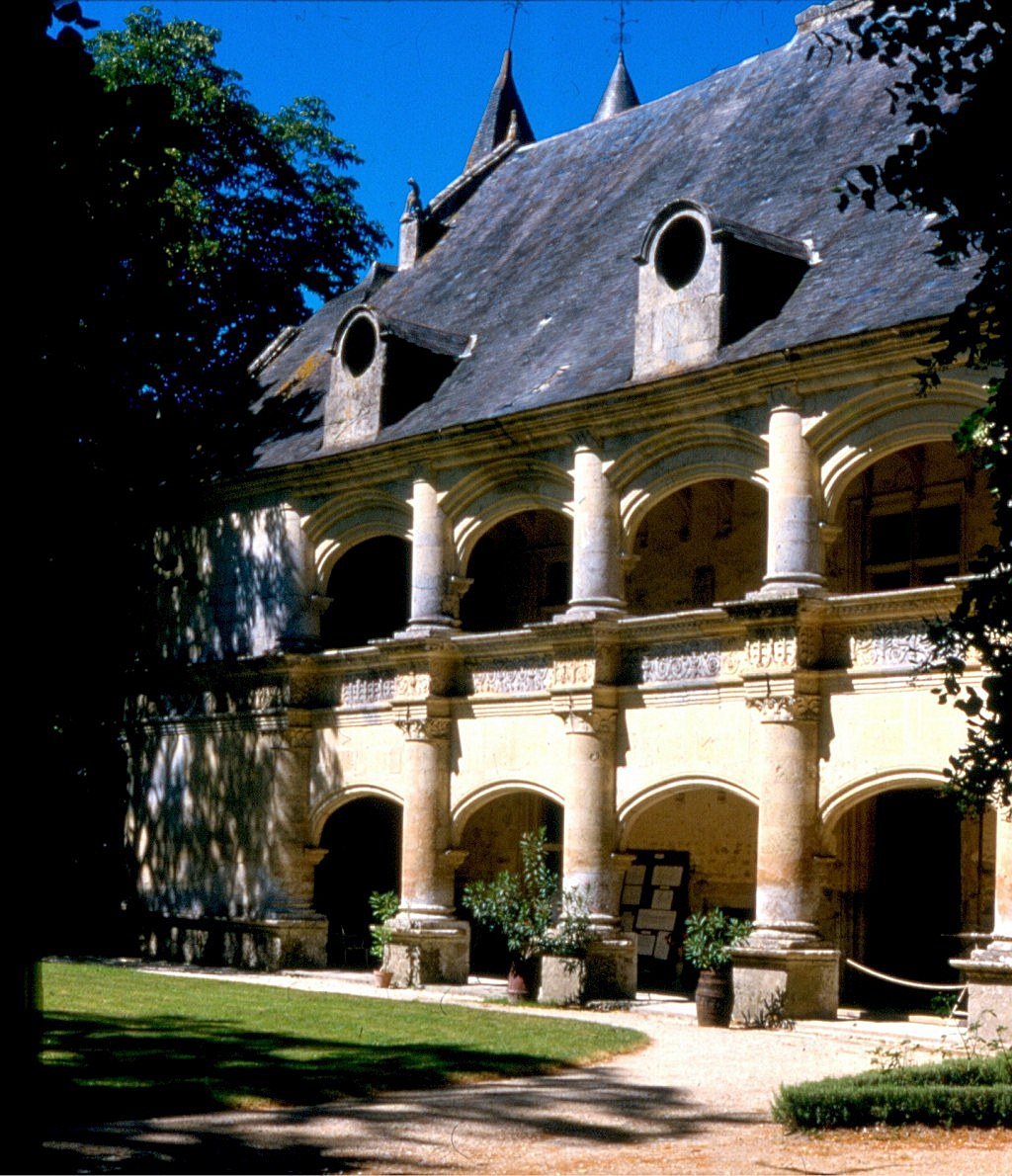 Castle of Dampierre-sur-Boutonne